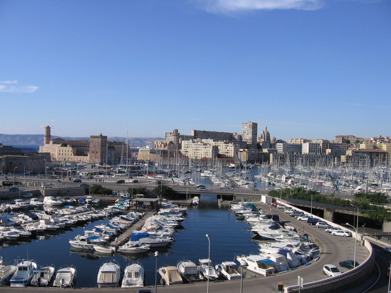 old port of Marseille